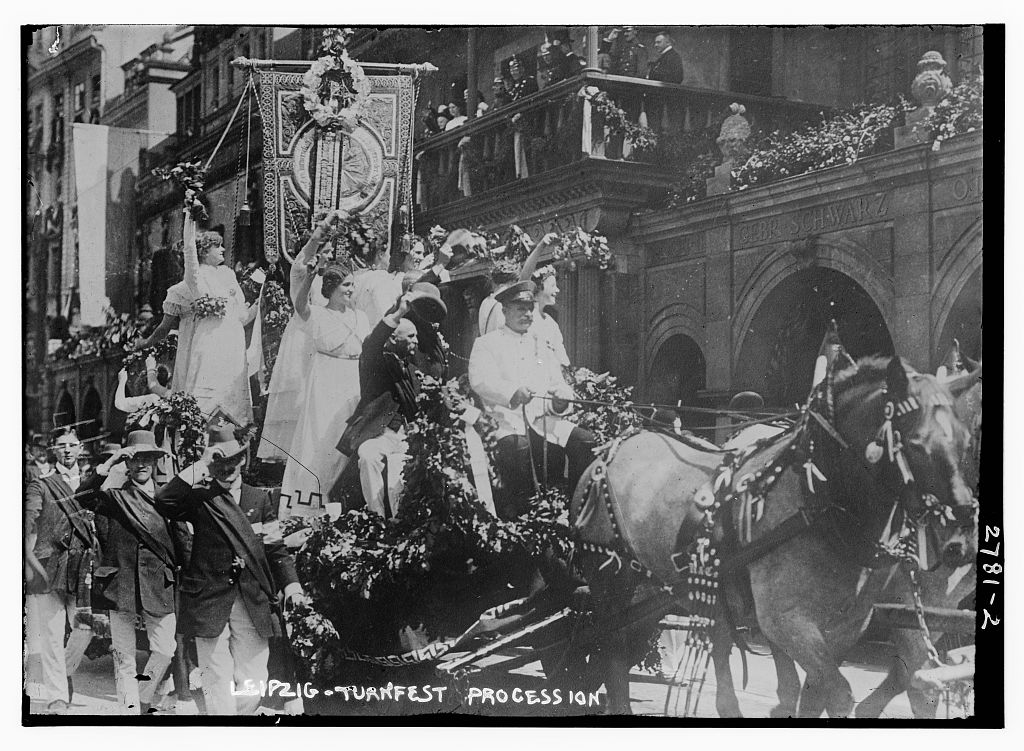 Bain News Service,, publisher. Leipzig Turnfest Procession [no date recorded on caption card] 1 negative : glass ; 5 x 7 in. or smaller. Notes: Title from unverified data provided by the Bain News Service on the negatives or caption cards. Forms part of: George Grantham Bain Collection (Library of Congress). Format: Glass negatives. Repository: Library of Congress, Prints and Photographs Division, Washington, D.C. 20540 USA, General information about the Bain Collection is available at Persistent URL: Call Number: LC-B2- 2781-2